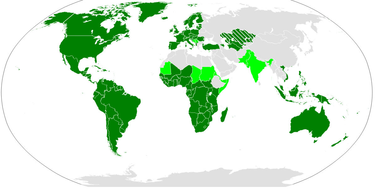 Latin Alphabeth